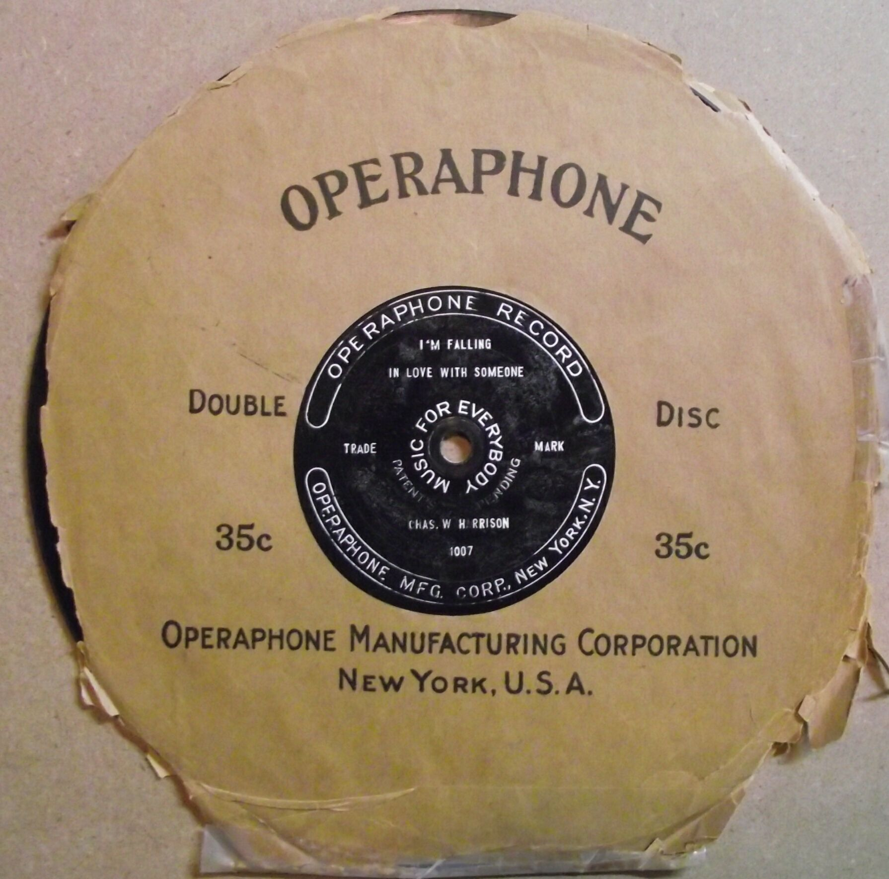 label of Operaphone 1007, and (highly tattered) original sleeve. Performer: Charles W. Harrison Song: I'm Falling in Love With Someone Format: 8-inch vertical-cut 78rpm, black shellac